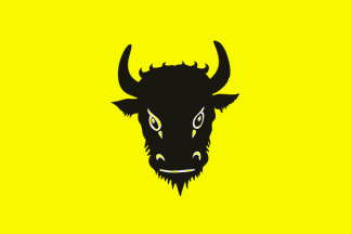 Flag of Zubří town, Vsetín District, Czech Republic